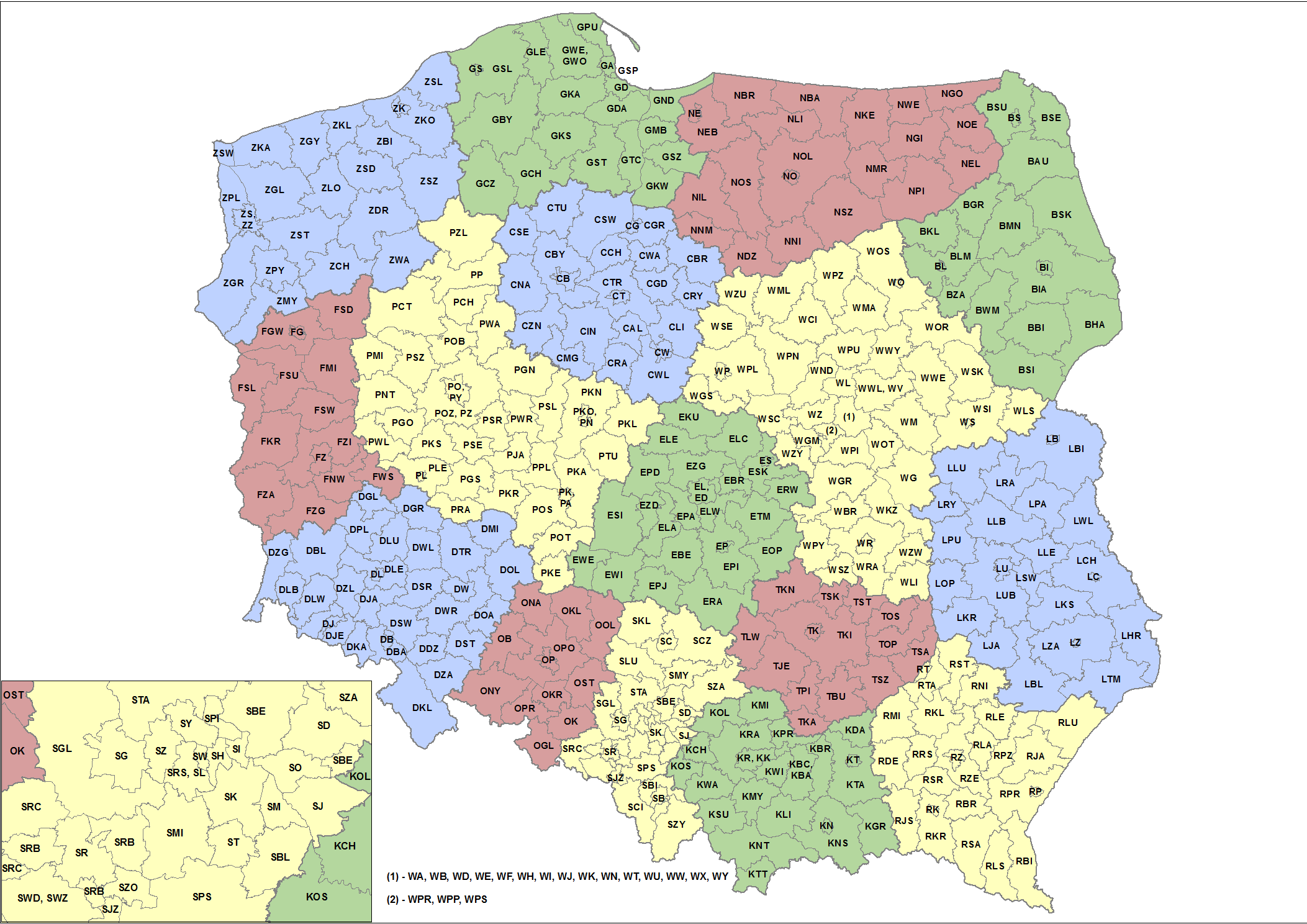 District indicators of vehicle registration plates of Poland. Series 2000. Version 2017